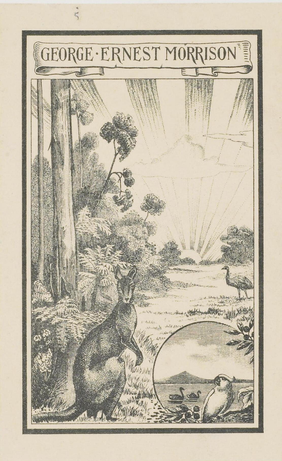 Ex libris used by George Ernest Morrison (1862-1920) in a book dedicated to him in 1904.